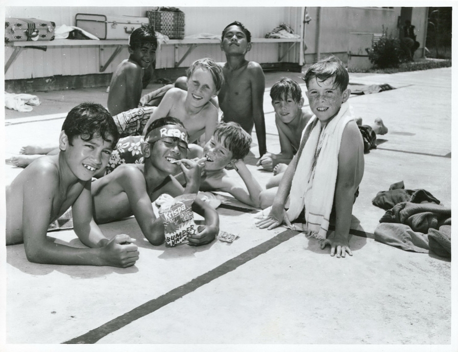 Description: Māori/Pakeha Relations - Māori and Pakeha boys at school swimming pool, Auckland. Photographer: G Riethmaier Date: December 1970 Archives reference: AAQT 6539 W3537 108/A95463 The National Publicity Studios was established in 1945, but its beginnings can be traced back to the establishment in 1924 of a Publicity Office - part of the Department of Internal Affairs. The emphasis of this Publicity Office was on films, photographs and booklets. The purpose of the National Publicity Studios was to provide advice to government departments and state agencies on the provision of photographic, art, and display services and in particular to assist in the production of publicity material aimed at conveying a favourable image of New Zealand. For enquiries about this record, email us at Material from Archives New Zealand.